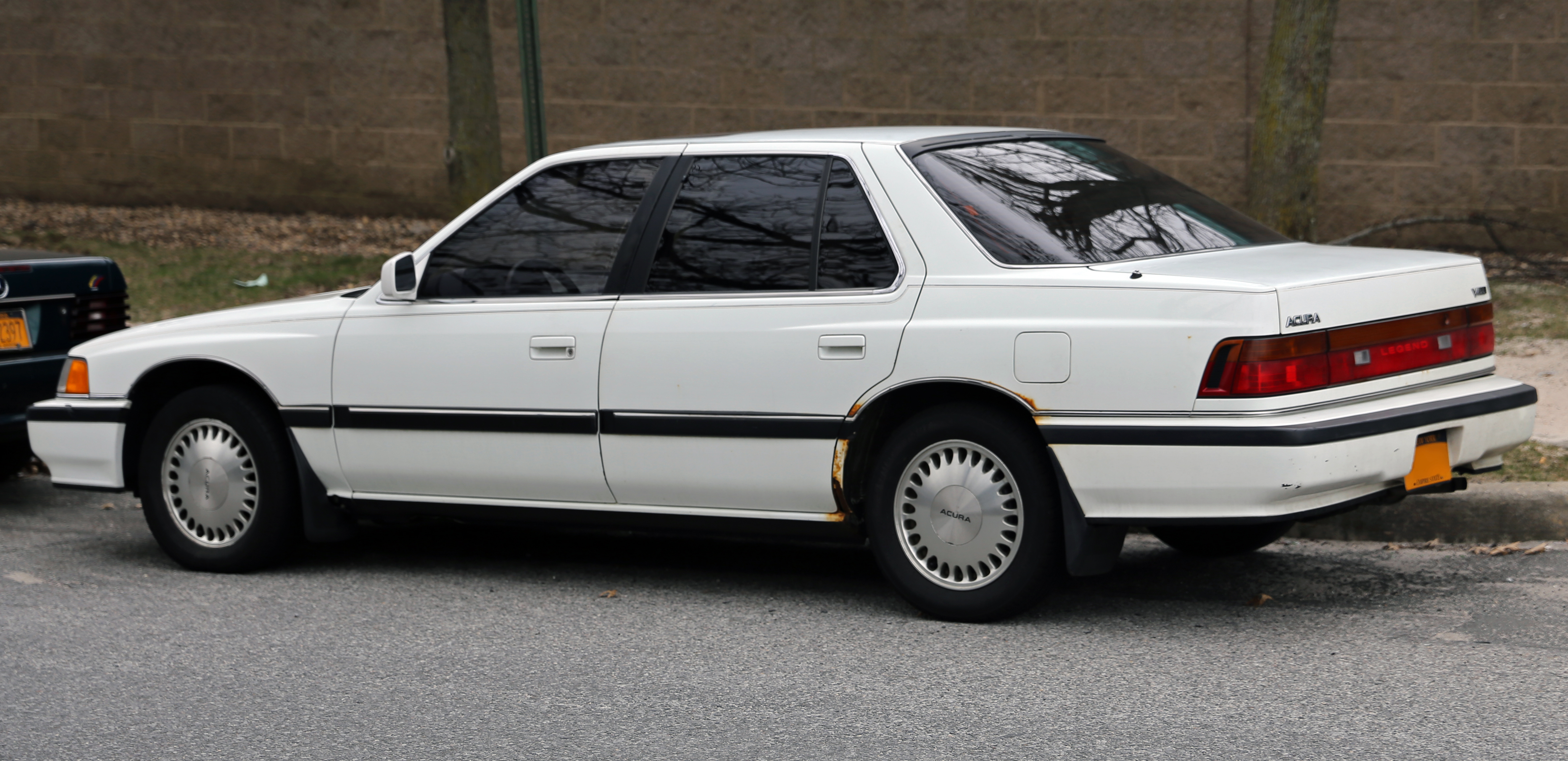 A 1990 Acura Legend L sedan (KA4), rear left 3/4 view.